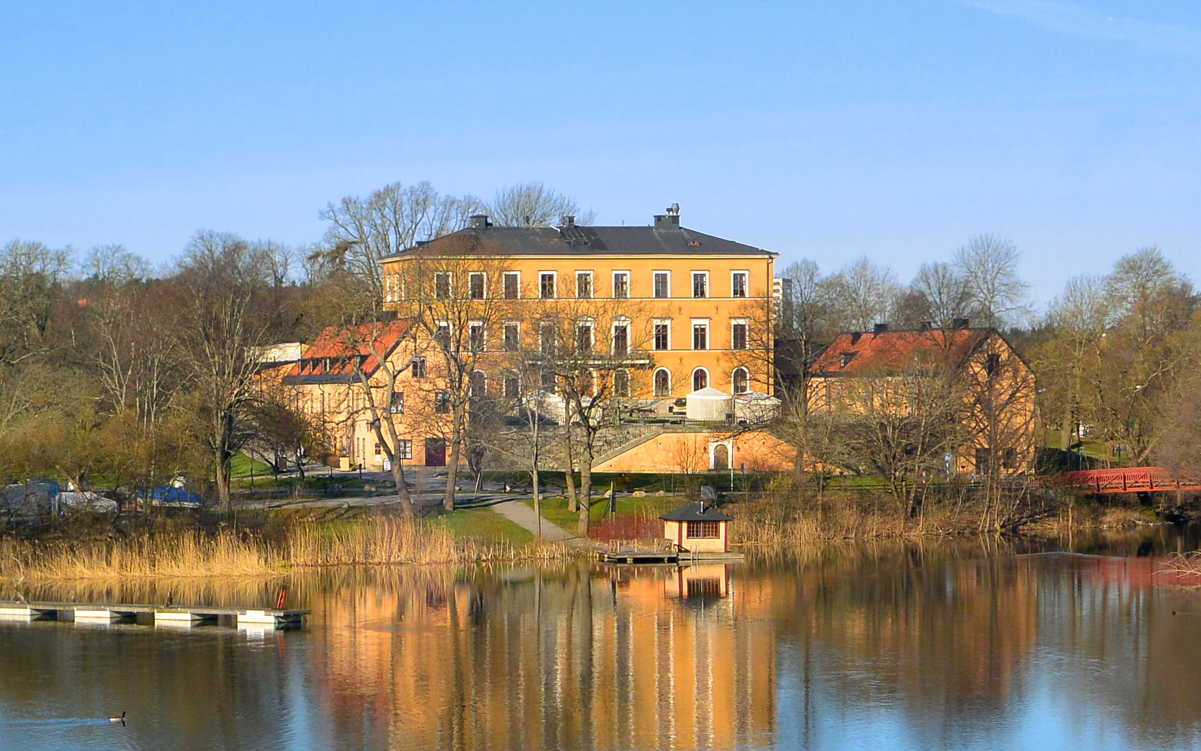 Ulvsunda Castle in Ulvsunda in western Stockholm.